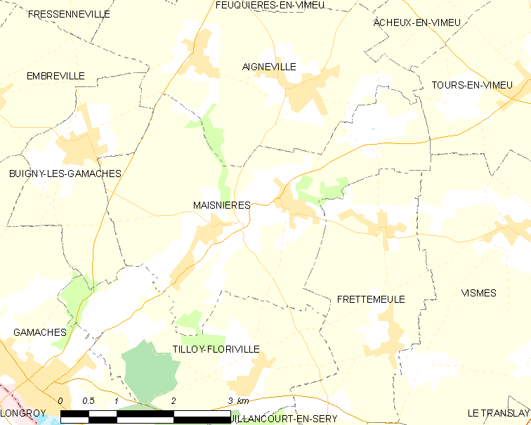 Map of French municipality Maisnières